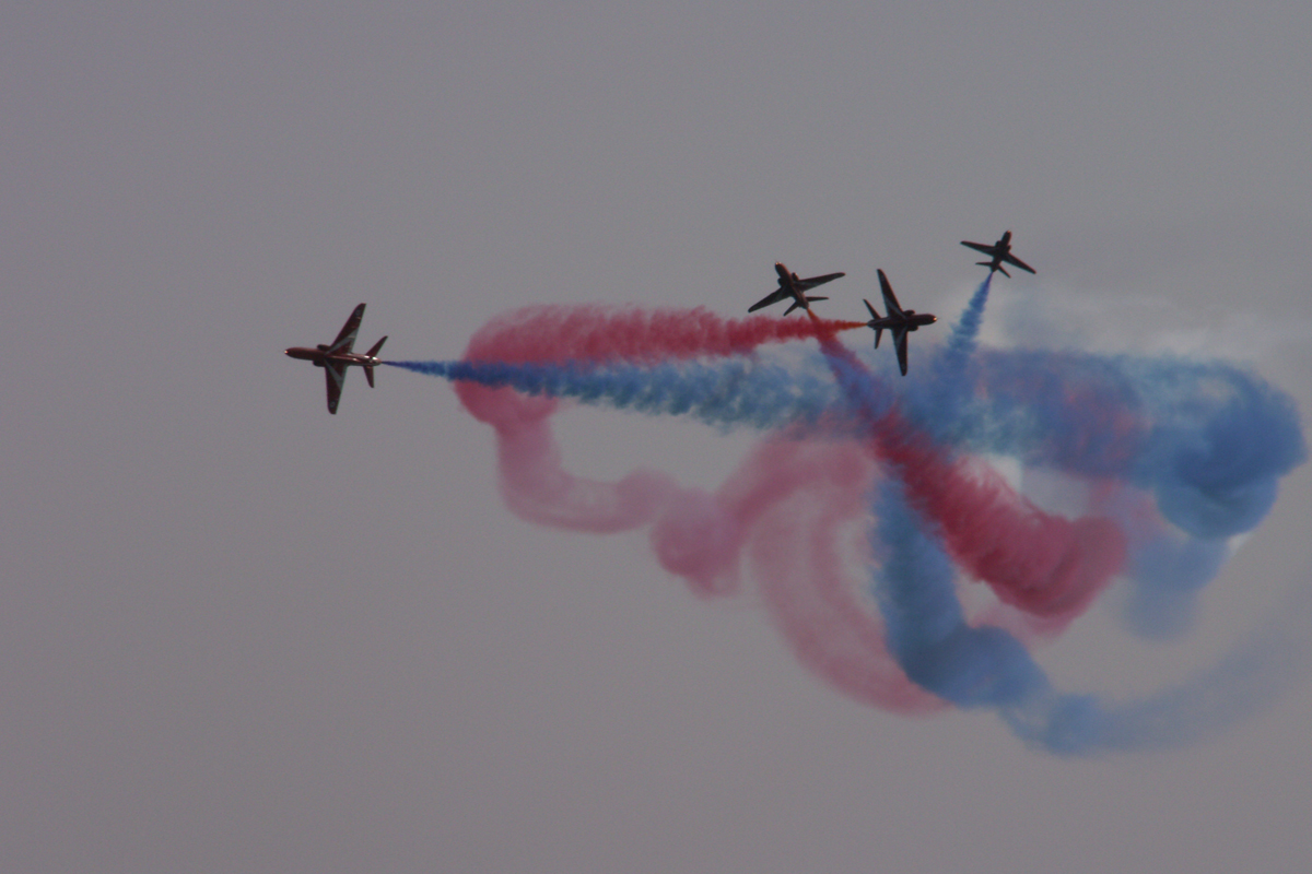 Red Arrows in Athens